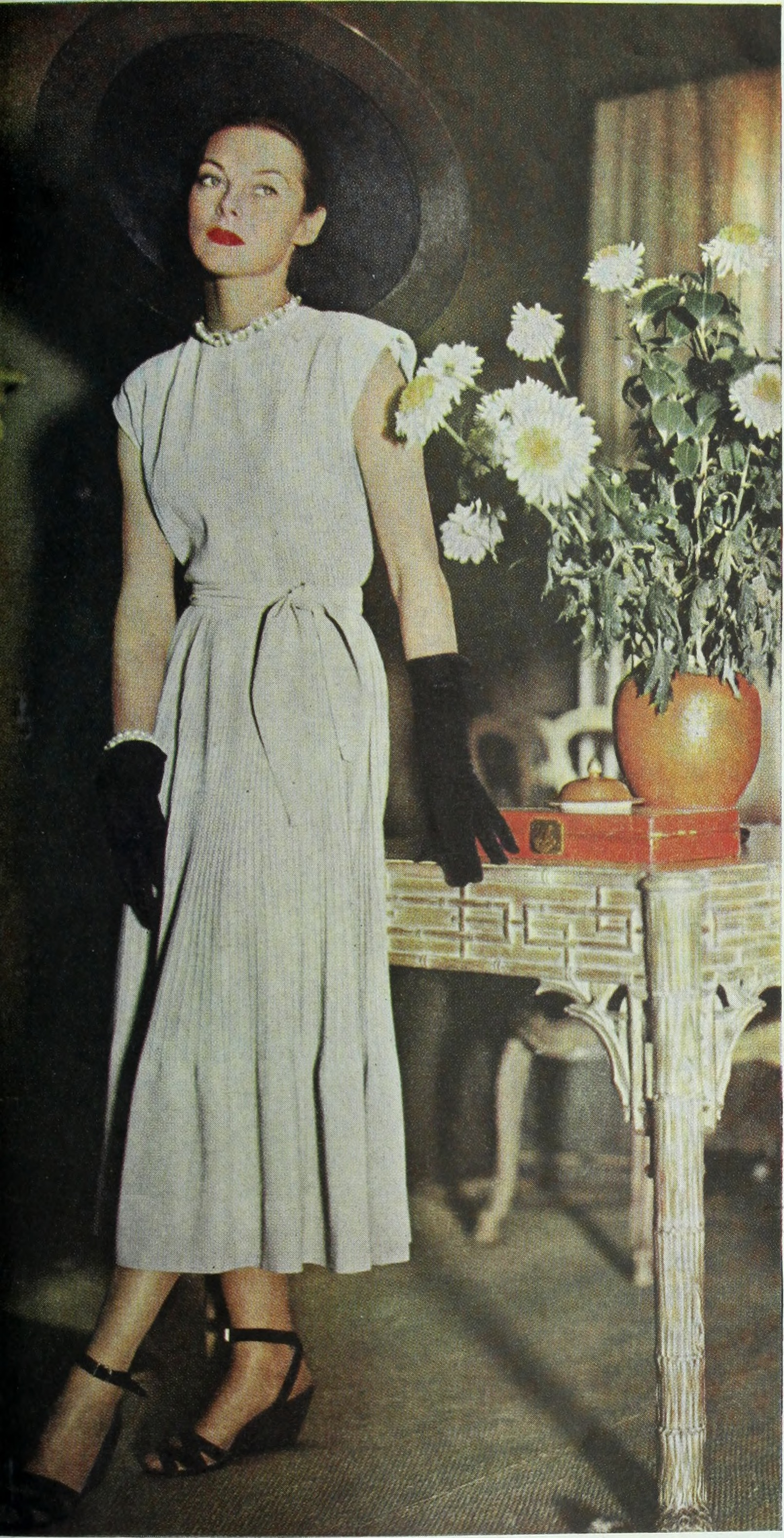 1948: Sleeveless beige crepe sheath dress by Joset Walker. Kenneth Hopkins cartwheel hat. Headley's gold link necklace strung with pearls Title: The Ladies' home journal Year: 1889 (1880s) Authors: Wyeth, N. C. (Newell Convers), 1882-1945 Subjects: Women's periodicals Janice Bluestein Longone Culinary Archive Publisher: Philadelphia : (s.n.) Text Appearing Before Image: *** + ttt ;. i J * ^-aunwfc^ eeveless beige crepe sheath dress by Joset Walker. Kenneth Hopkins rtwheel hat. Headleys gold link necklace strung with pearls. Text Appearing After Image: '